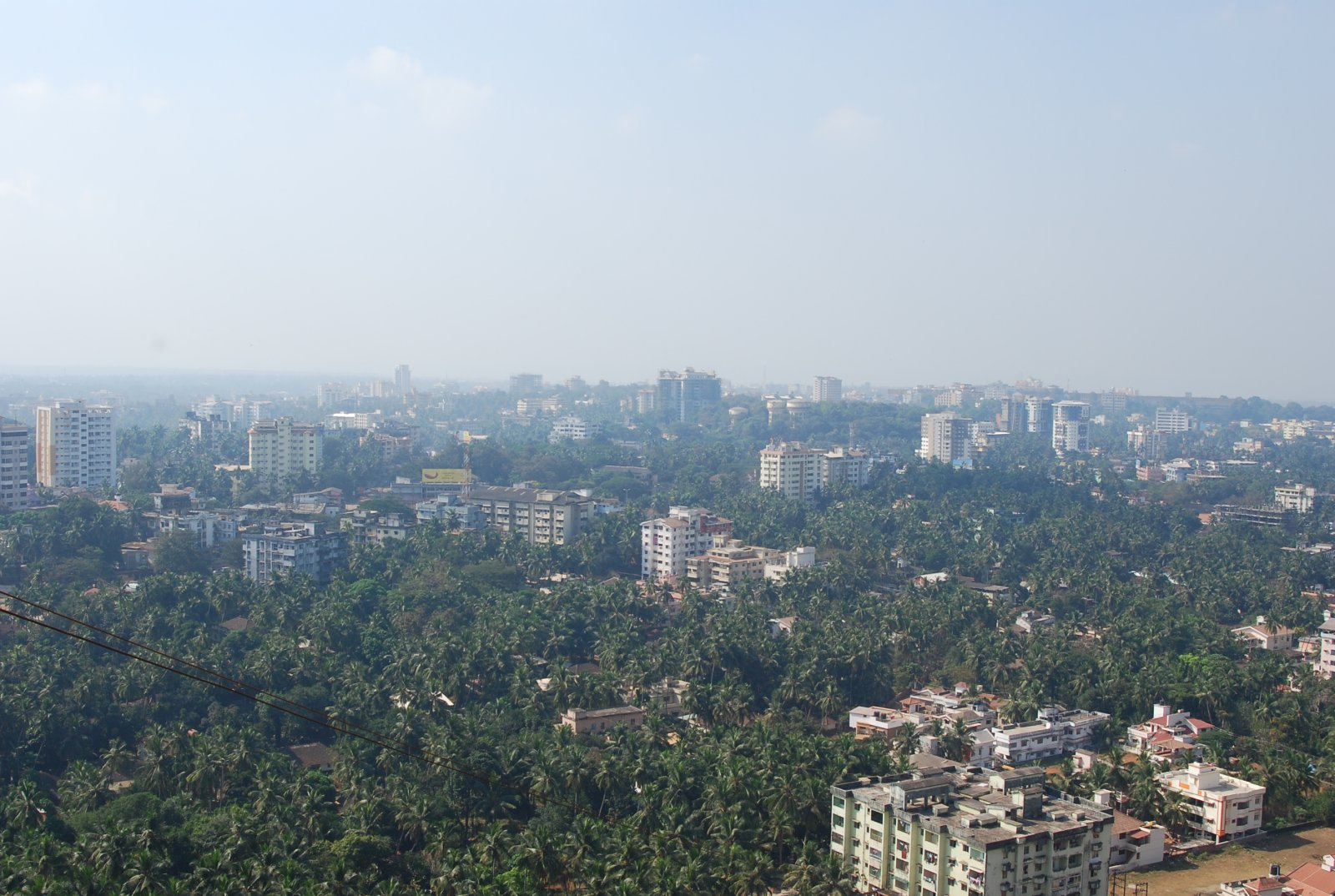 Mangalore Skyline overlooking the eastern part of the city